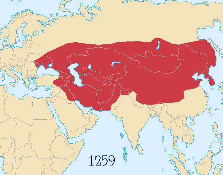 Mongol Empire in 1259